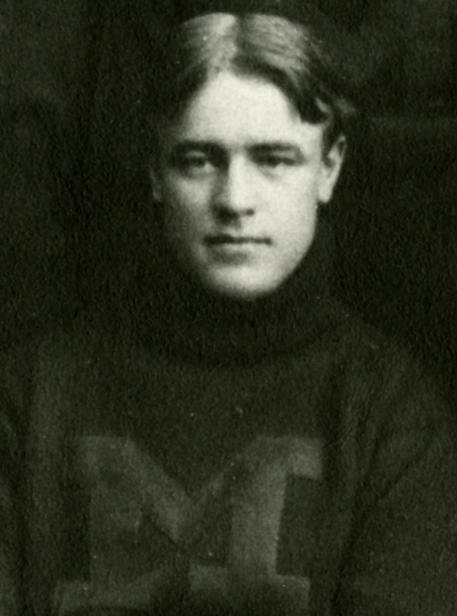 Photograph of William Caley